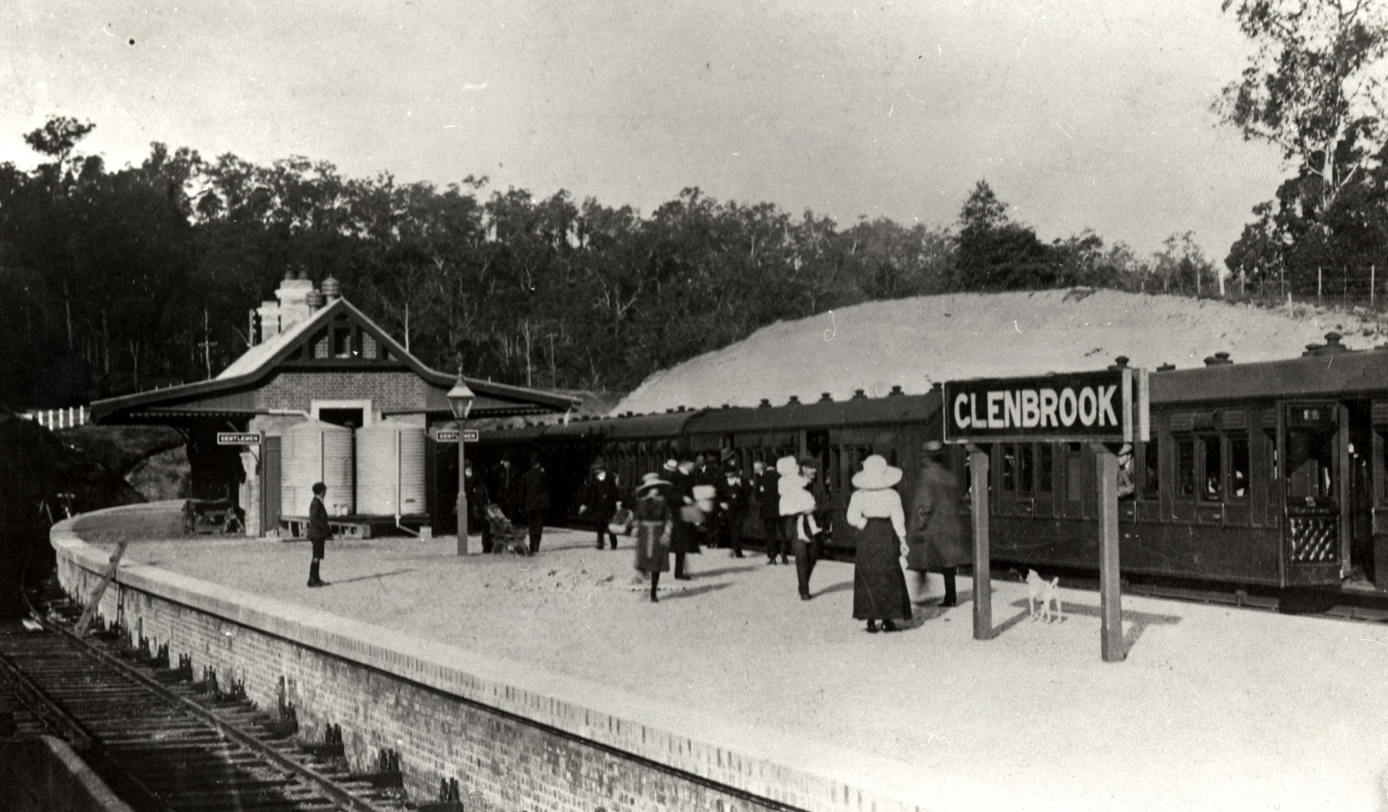 Title: Glenbrook Railway Station (NSW) Dated: by 31/12/1905 Digital ID: 17420_a014_a014000728 Rights: No known copyright restrictions We'd love to hear from you if you use our photos/documents. Many other photos in our collection are available to view and browse on our website using Photo Investigator.